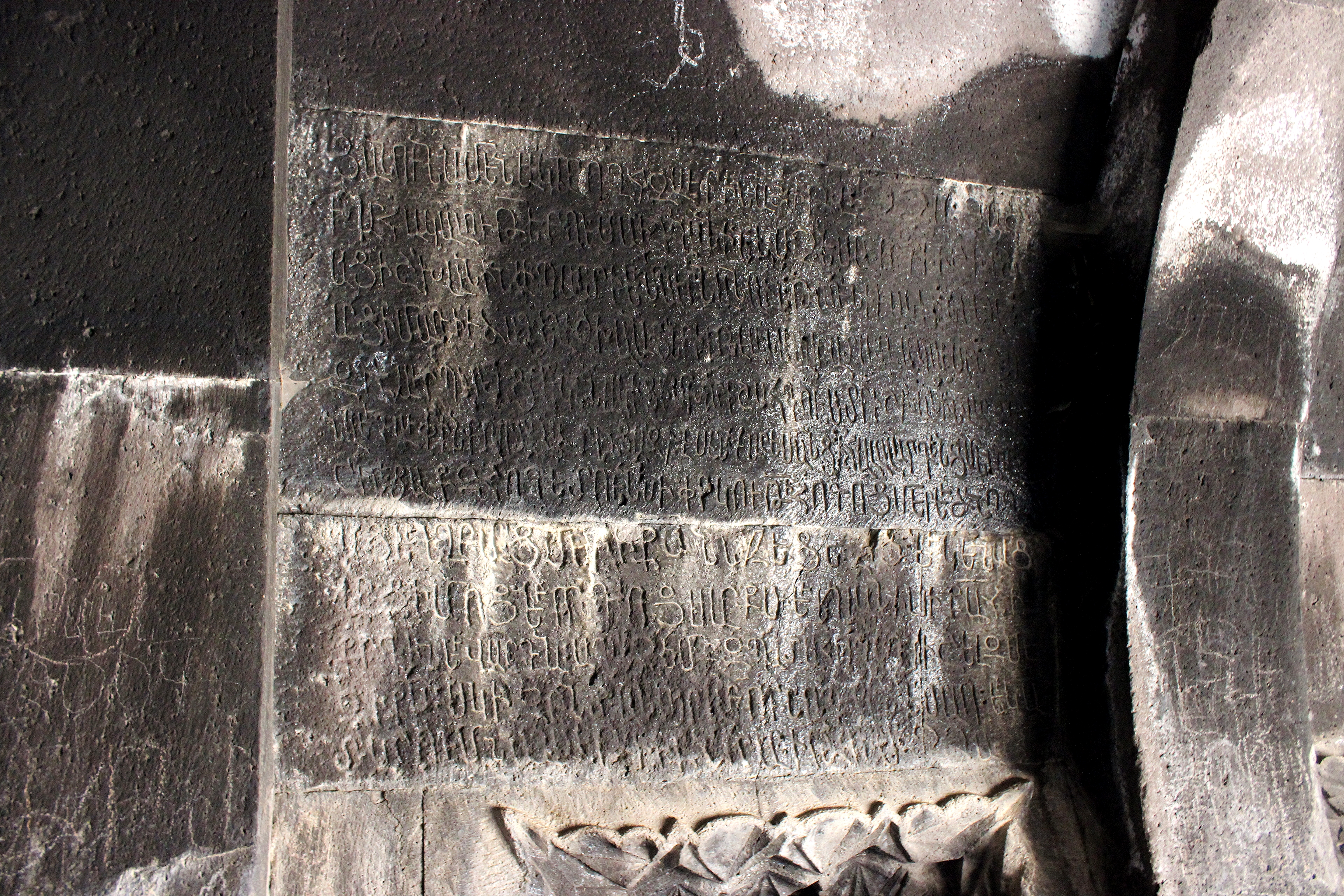 The dedicatory Armenian inscription found at the eastern interior wall, just past the entrance to the upper right, Orbelian's Caravanserai, previously Selim Caravanserai, Vayots Dzor Province, Armenia. It reads the following: "In the name of the Almighty and powerful God, in the year 1332, in the world-rule of Busaid Khan, I Chesar son of Prince of Princes Liparit and my mother Ana, grandson of Ivane, and my brothers, handsome as lions, the princes Burtel, Smbat and Elikom of the Orbelian Dynasty, and my wife Khorishah daughter of Vardan [and ...] of the Senikarimans, built this spiritual house with our own funds for the salvation of our souls and those of our parents and brothers reposing in Christ, and of my living brothers and sons Sargis, Hovhannes the priest, Kurd and Vardan. We beseech you, passers-by, remember us in Christ. The beginning of the house [took place] in the high-priesthood of Esai, and the end, thanks to his prayers, in the year 1332." 7/1.2